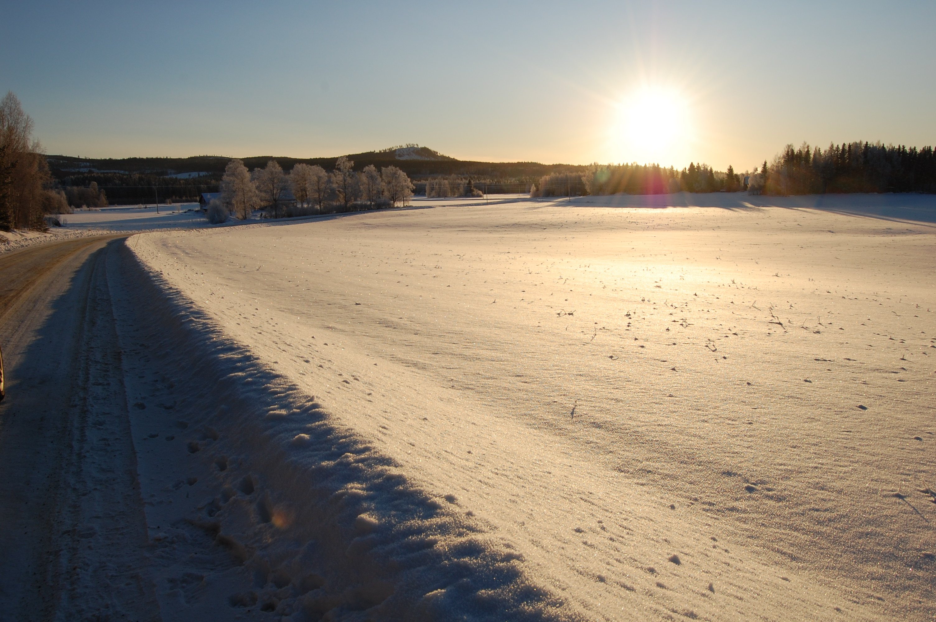 Winterview from Hälsingland, Sweden (december of 2008)